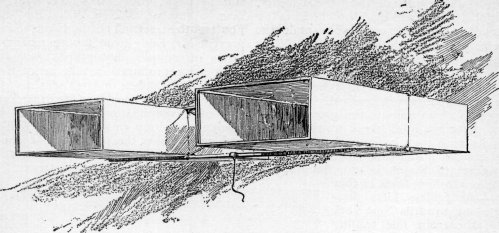 The Hargrave Box-Kite. This image was captioned "It was by kites of this variety, flown in tandem, that the inventor, Lawrence Hargrave, was lifted sixteen feet from the ground on November 12, 1894". McClure's Magazine, March, 1896, Vol. VI., No. 4., page 383